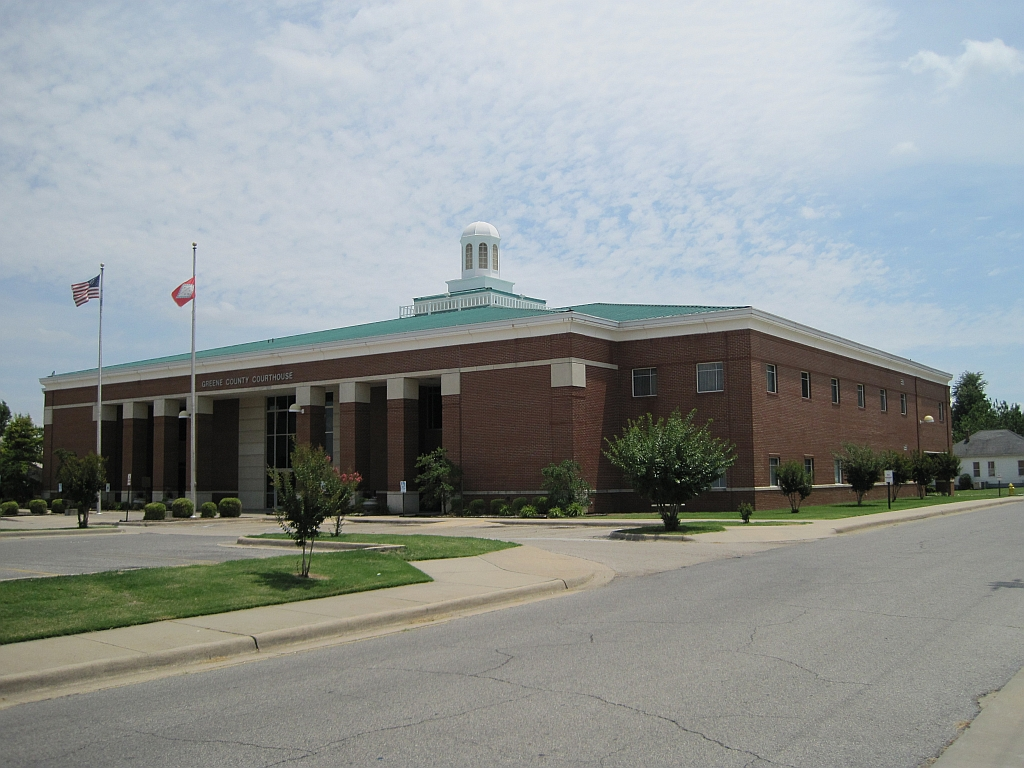 Paragould, Arkansas Green County Courthouse